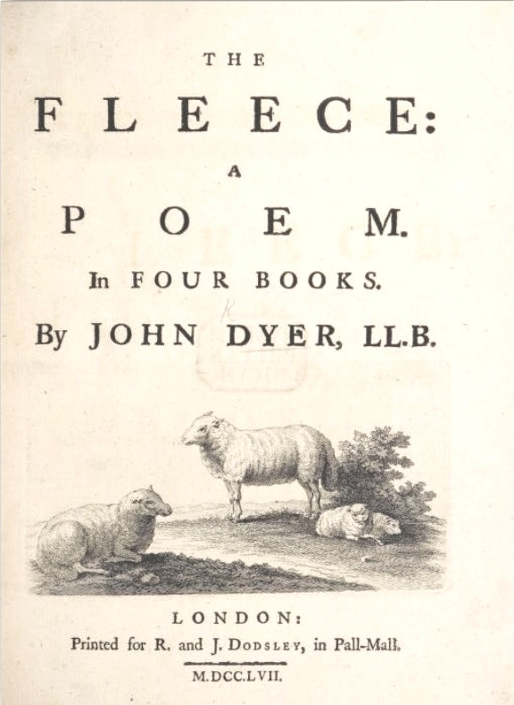 Page 5 of The Fleece, a Poem, in four books